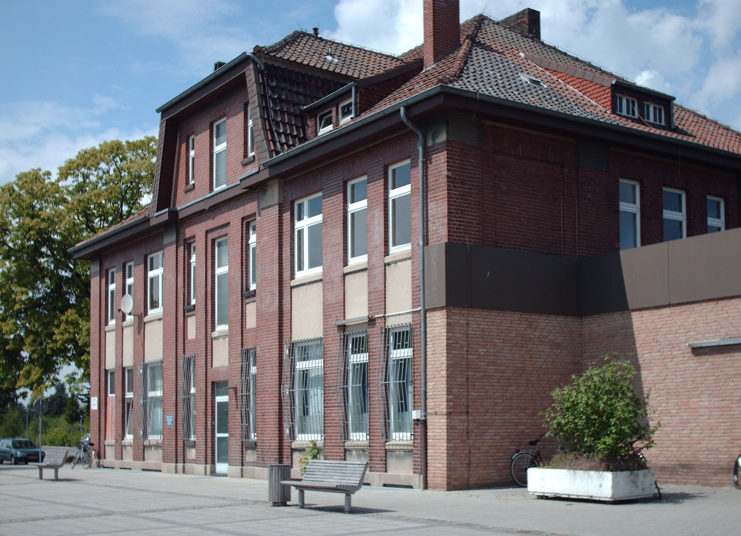 Gronau (Westfalen) station, Gronau (Westf.), Germany check usage